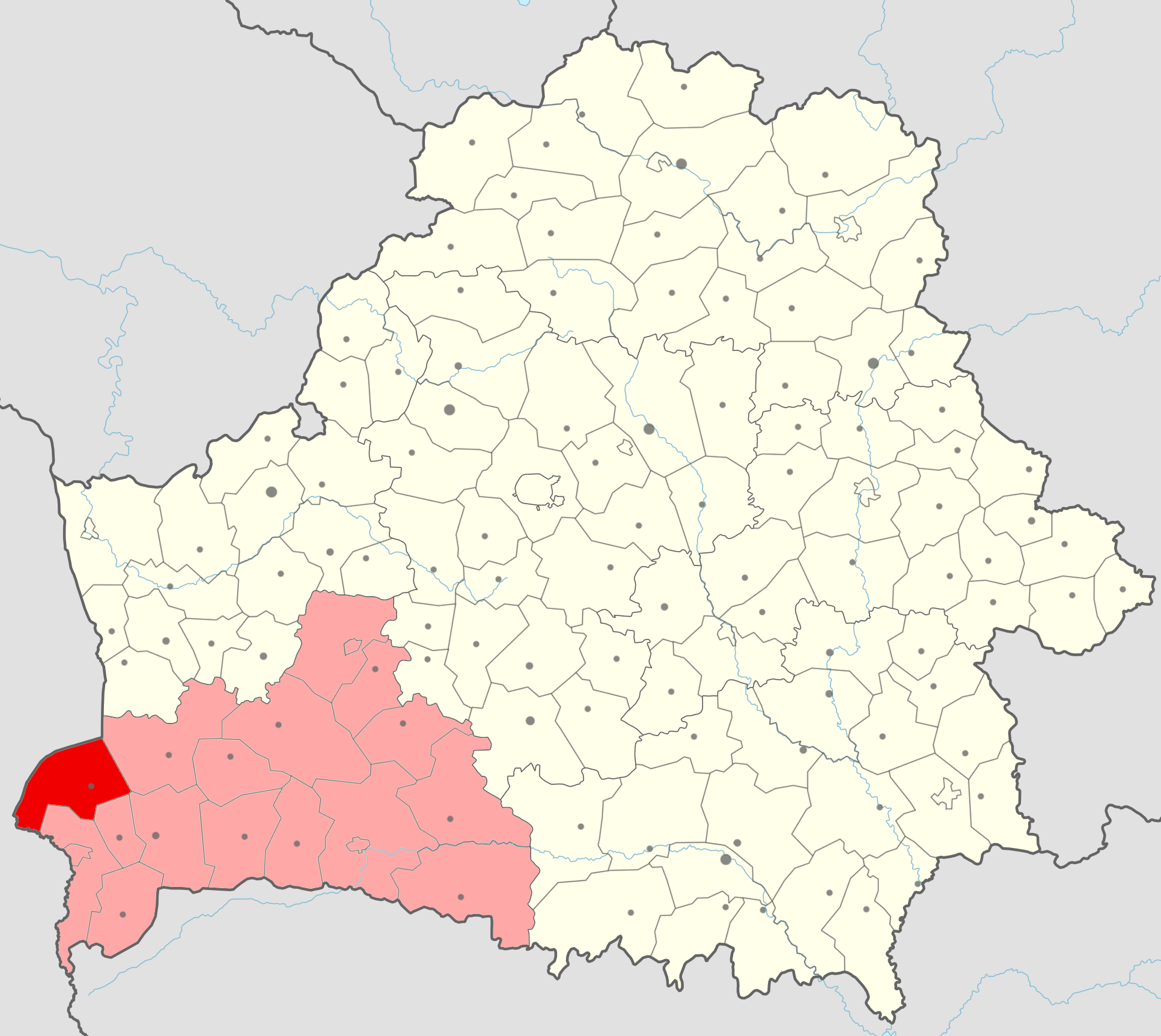 Location of Kamianiecki rajon (red) in Bresckaja voblasć (light red) in Belarus.